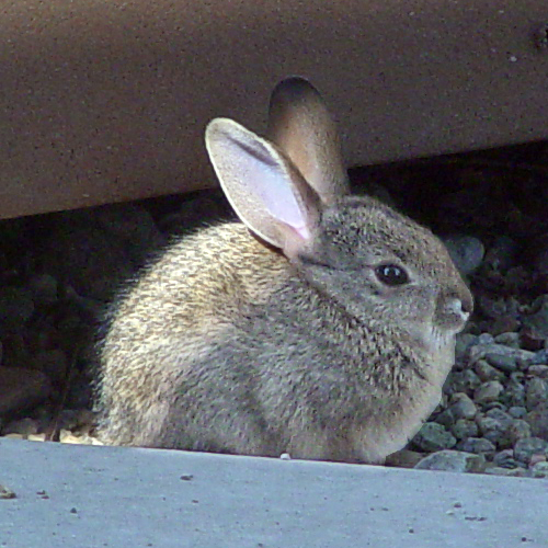 Desert Cottontail (Sylvilagus audubonii) - juvenile